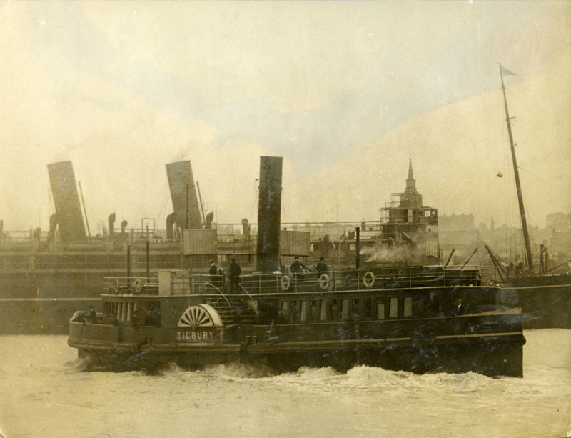 The 1883 date of the photograph ties in with the launch of the paddle steamer "Tilbury" . She was commissioned by the London, Tilbury and Southend Railway who maintained the ferry service across the River Thames between Tilbury and Gravesend. She operated for nearly 40 years before being scrapped in 1922.